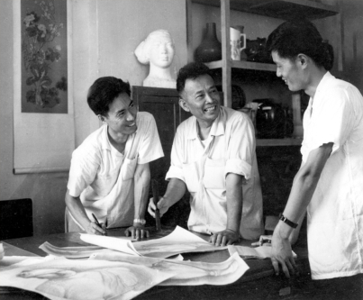 Professor Fu Luofei, a famous Chinese painter and artist, working at South China Institute of Technology (currently South China University of Technology) in 1962.